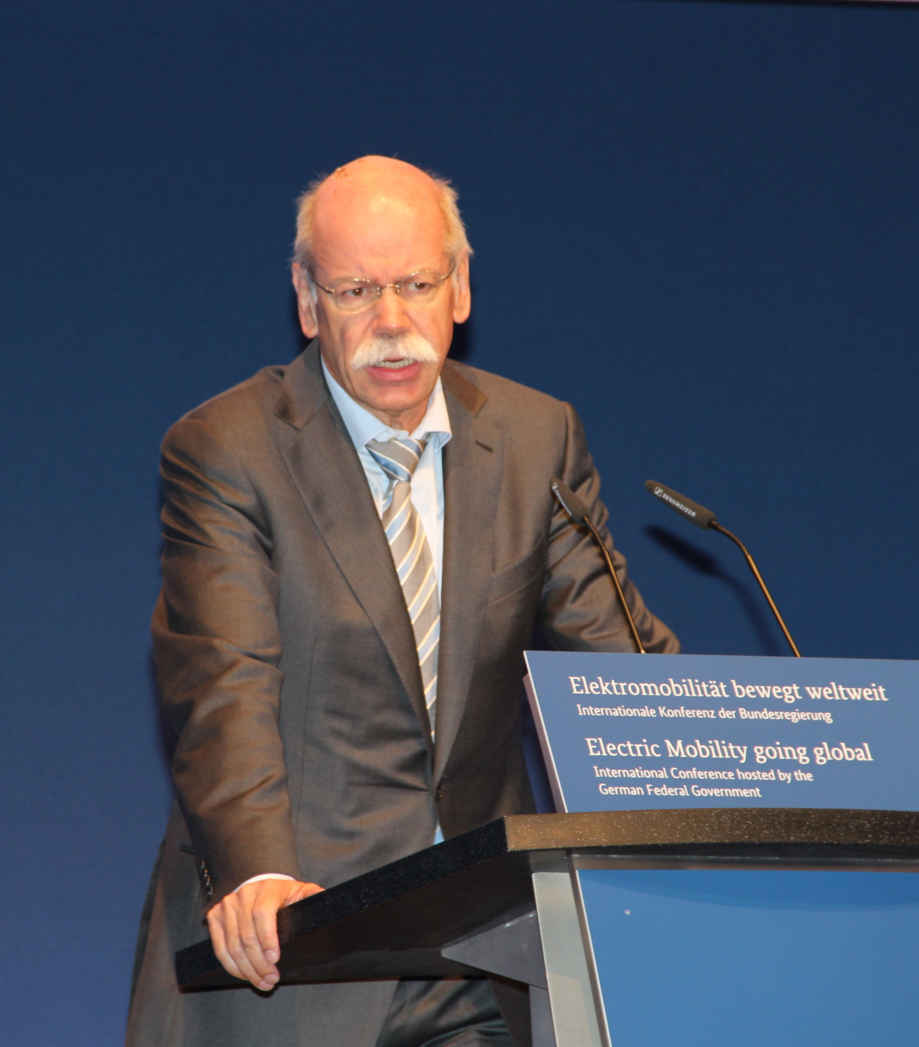 Dieter Zetsche, CEO of Daimler AG - at the Electromobility Summit 2013 in Berlin